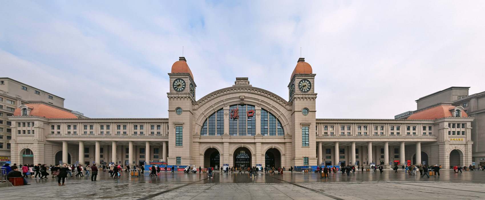 South Square of Hankou Railway Station